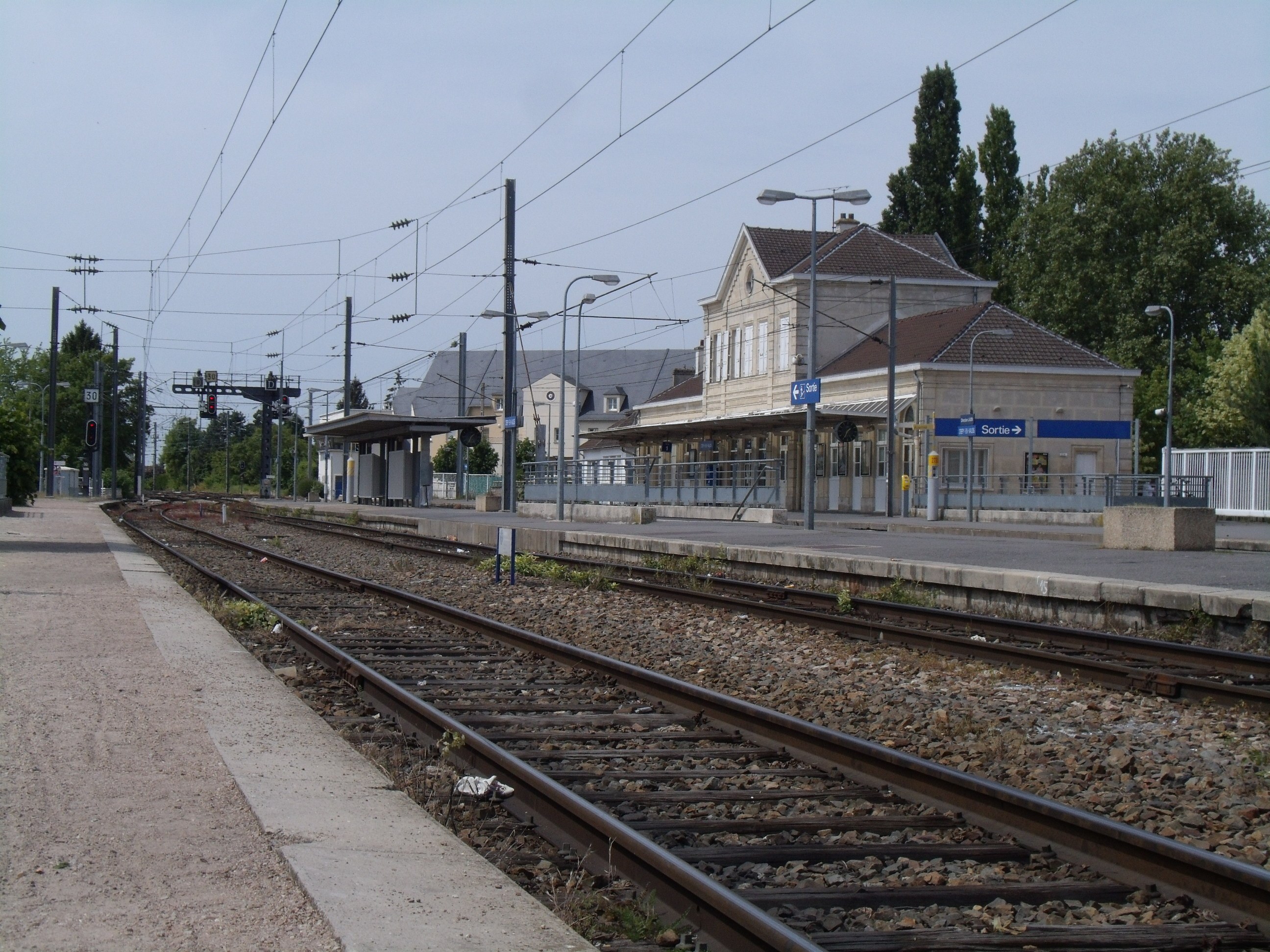 The tracks of Crépy-en-Valois station